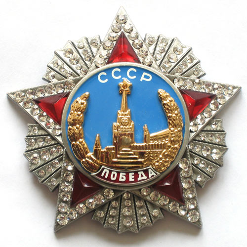 copy of Soviet Order of Victory